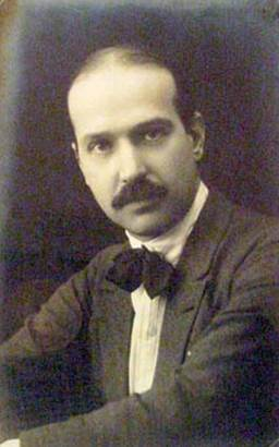 Photograph of Argentine painter Alfredo Guttero (1882-1932)